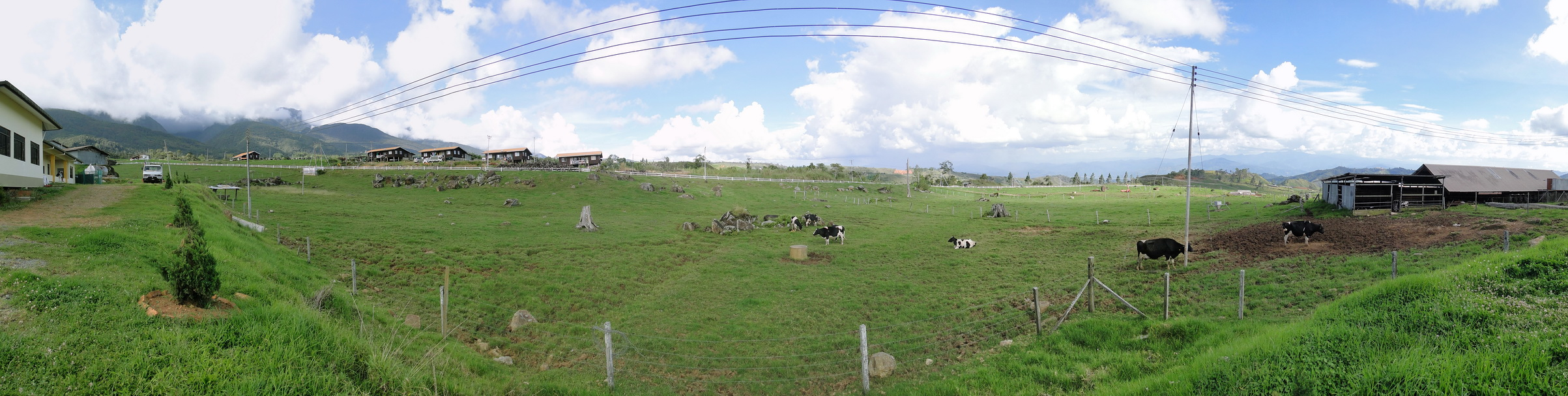 Desa Cattle Farm in Panoramic view